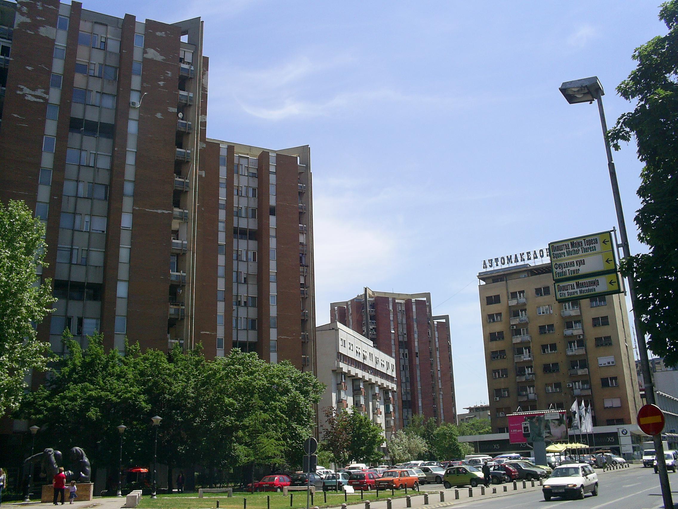 Buildings in the centre of Skopje